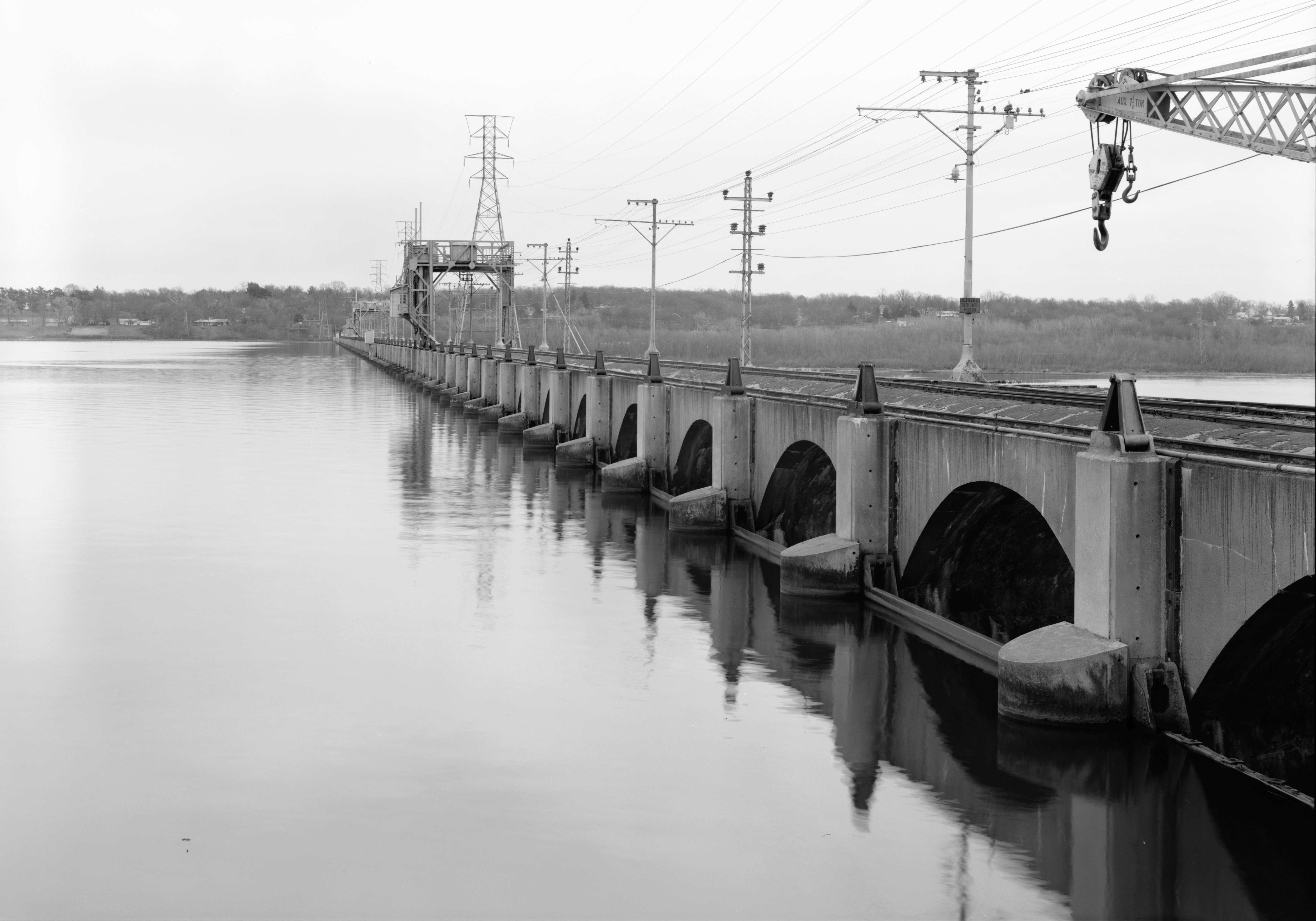 Mississippi River Lock and Dam No. 19, Keokuk, Iowa.